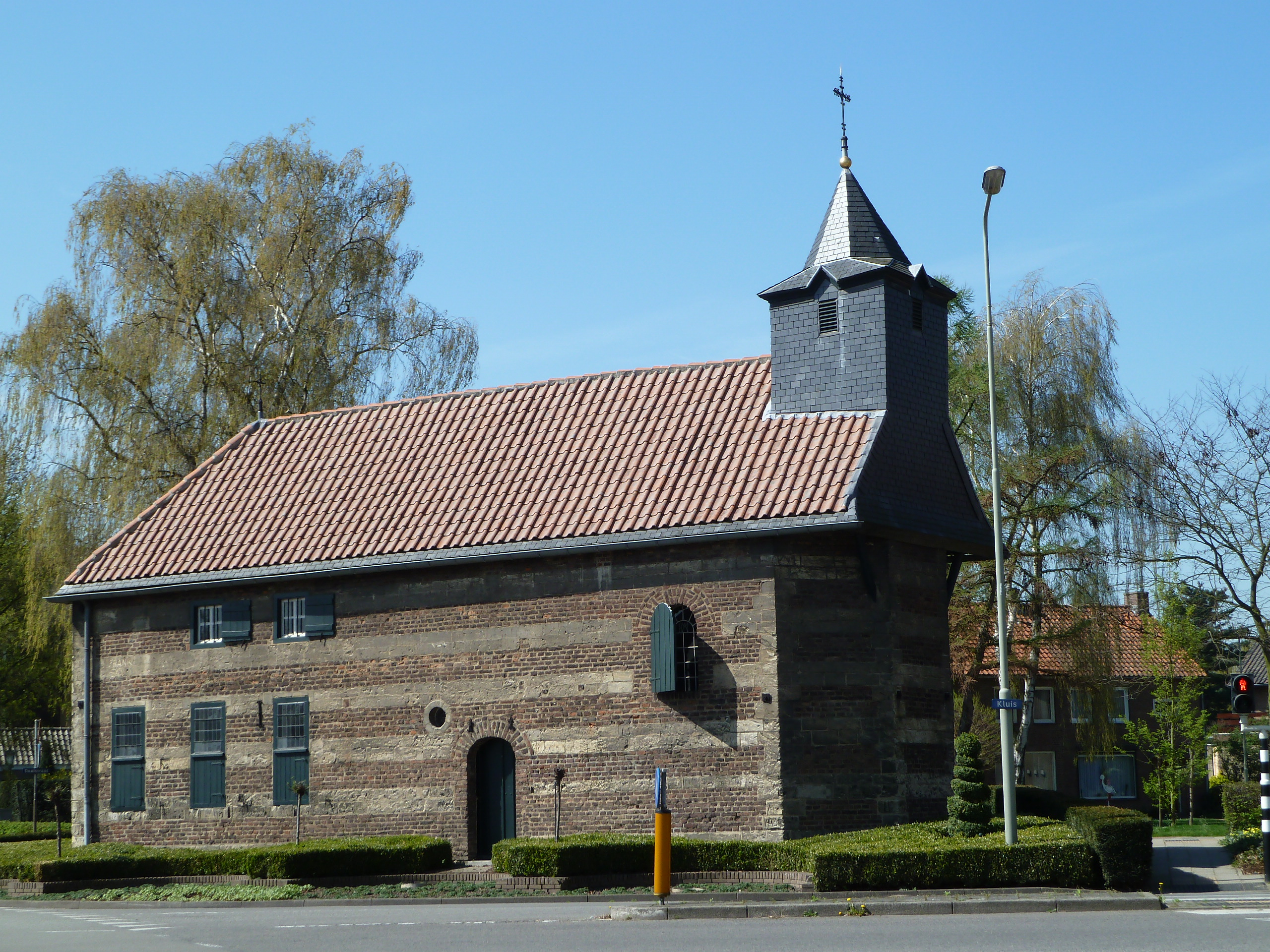 Sint-Janskluis, Geleen, Limburg, the Netherlands